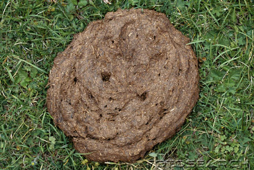 Cow dung near Horsens in Denmark